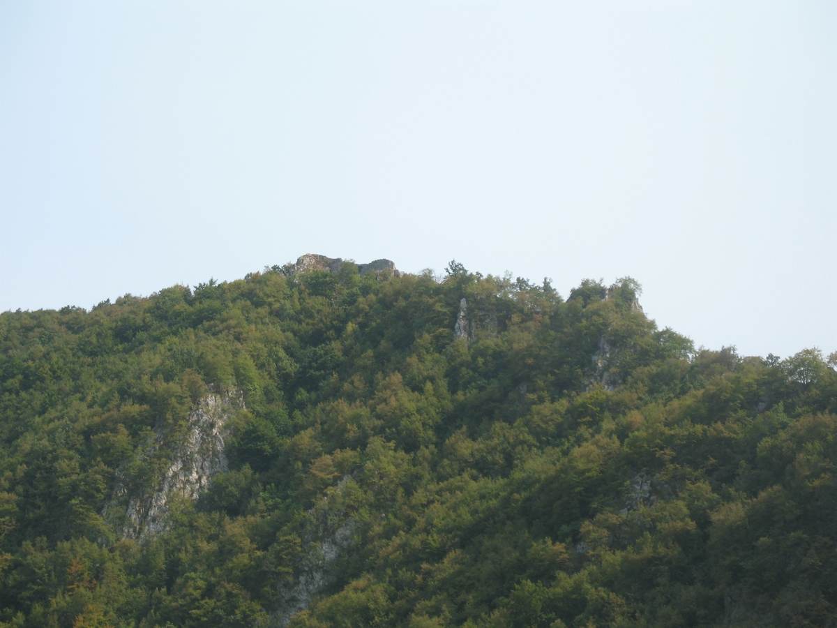 View on remains of Solotnik Fortress above village of Solotuša, near Bajina Bašta on Drina, Serbia.